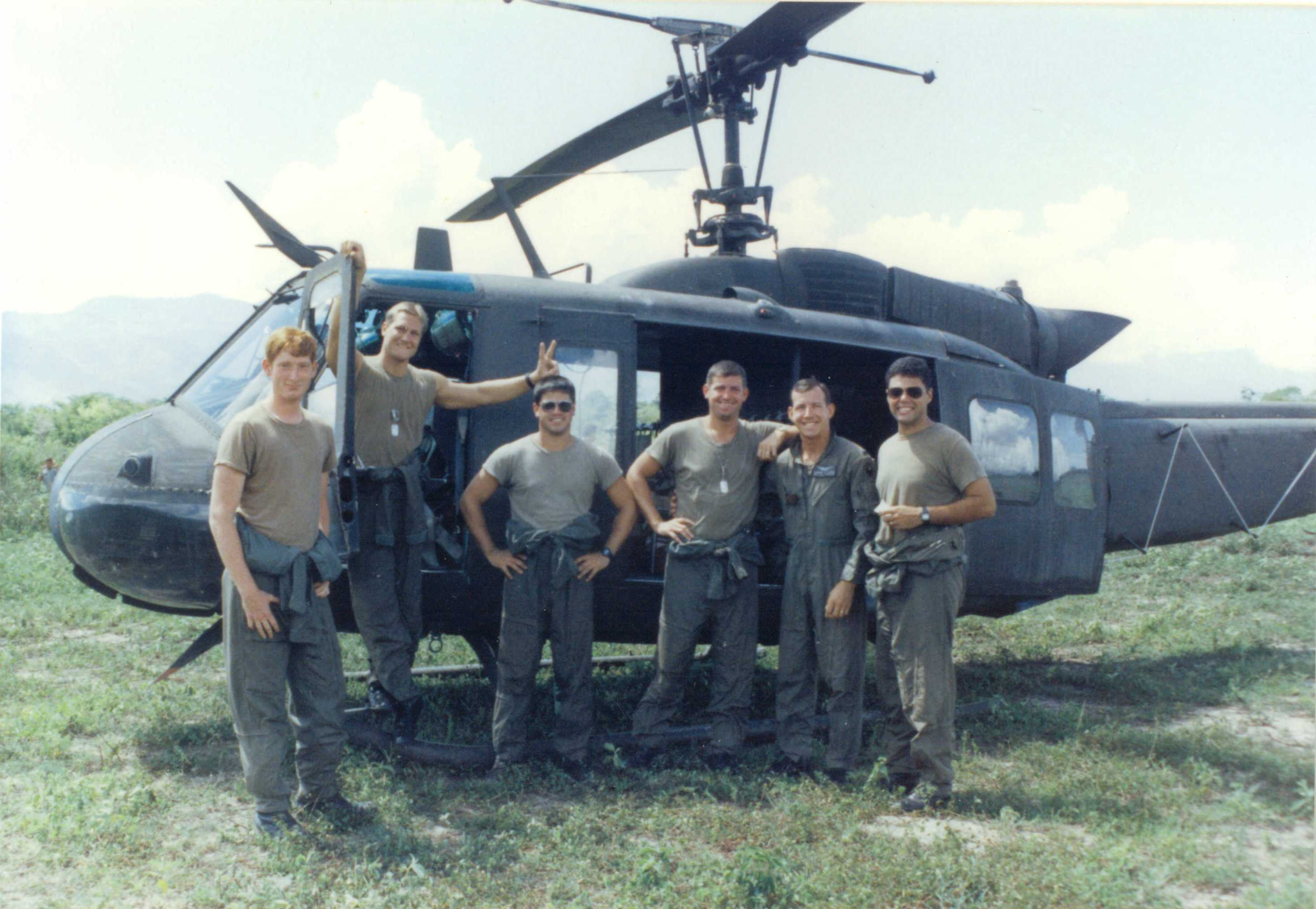 UH-1H crew, Honduras, 1988. Left to Right: Garland, Nestor, Brown, Ferguson, Showers, Disney